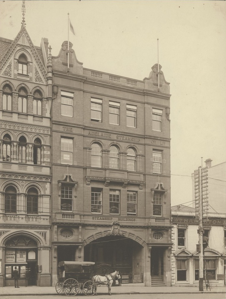 Black and white photo of the Adelaide Steamship Company building in Melbourne, Victoria taken between 1900 and 1920.- The Adelaide Steamship Company building in Melbourne during the early 1900s, designed by Charles D'Ebro.The Adelaide Steamship Company building in Melbourne, Victoria, Australia was designed in the Palazzo style in 1904 by London-born architect Charles D'Ebro (1850-1920). It was destroyed in 1980.